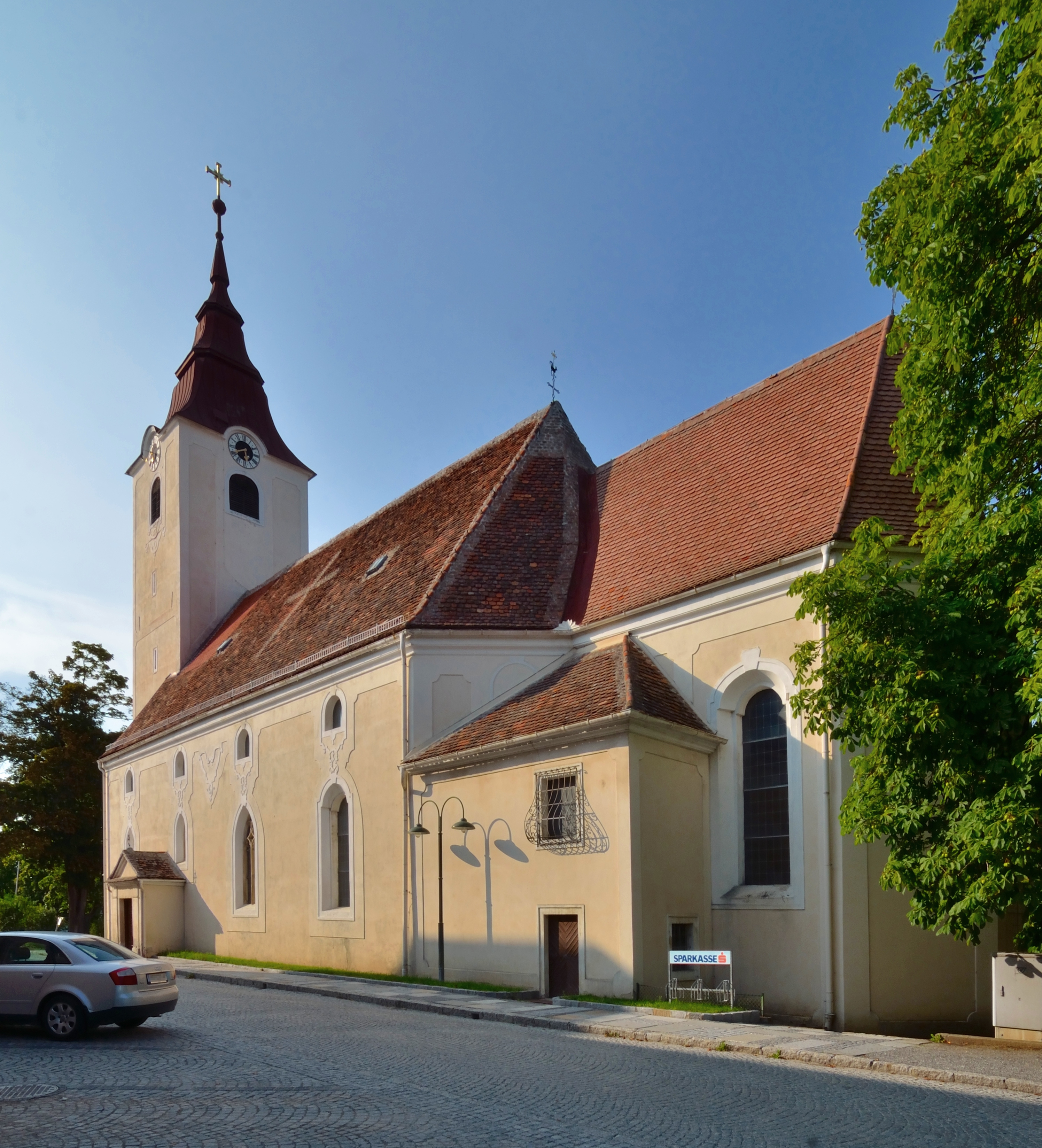 Parish church St. Martin in Drosendorf.